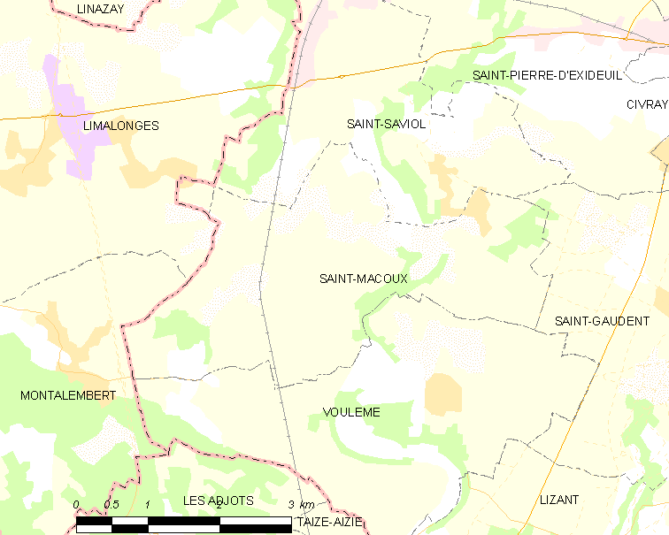 Map of French municipality Saint-Macoux